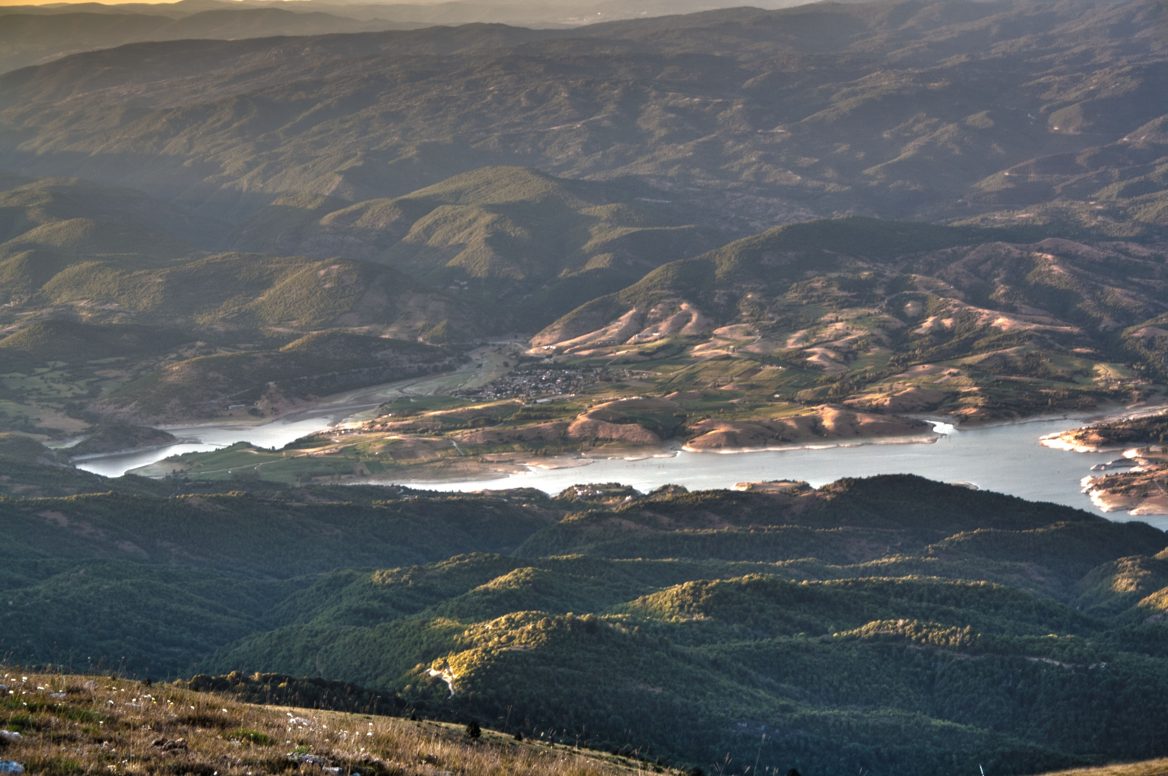 The village of Potamoi and the Nestos Rever as seen from Falakro Oros.